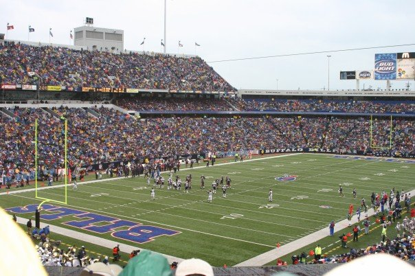 Author David L Selby, Ralph Wilson Stadium 10/22/200618:58, 6 November 2006 . . Evilarry . . 604×402 (82,804 bytes)